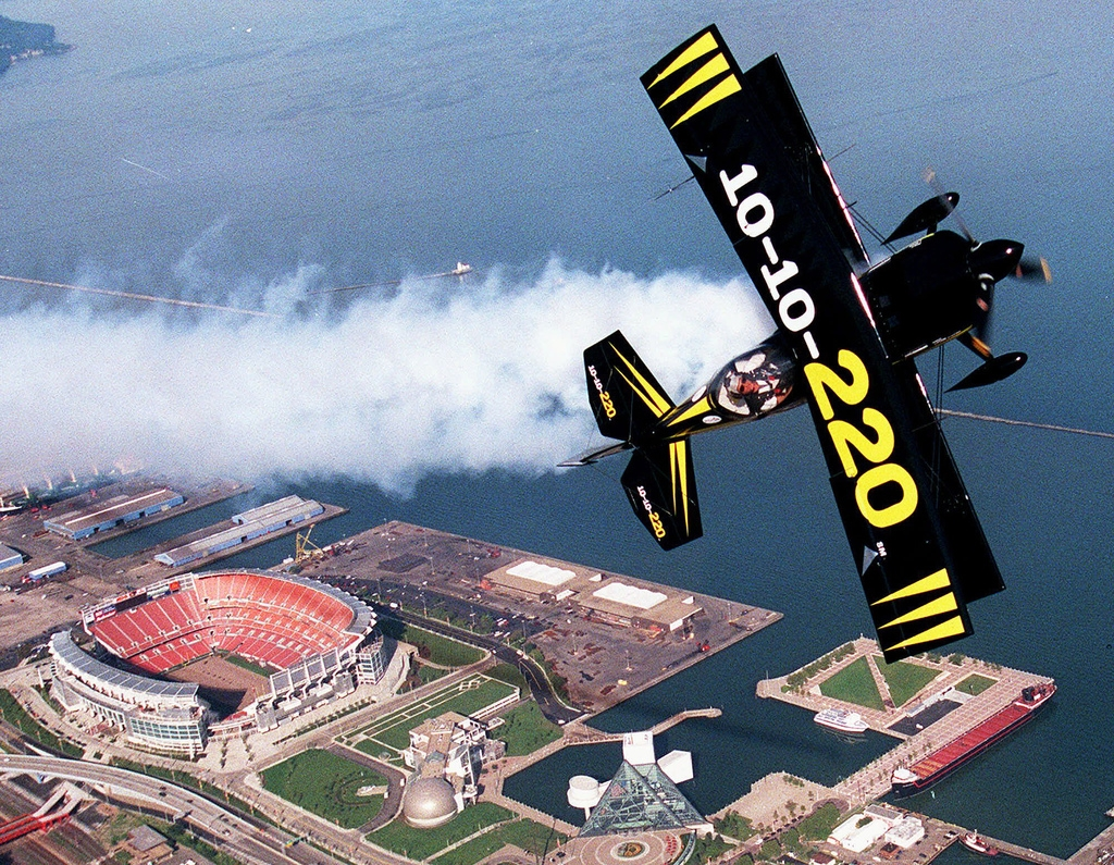 Pilot Sean D. Tucker and the 10-10-220 Challenger II, fly over downtown Cleveland, Ohio, above the new Cleveland Browns Stadium, The Great Lakes Science Center, and the Rock and Roll Hall of Fame, Wednesday, Sept 1, 1999. His custom designed plane can fly at speeds up to 300 mph. He was one of the first to arrive in preparation for the Cleveland National Air Show this weekend at the Burke Lakefront Airport in downtown Cleveland.